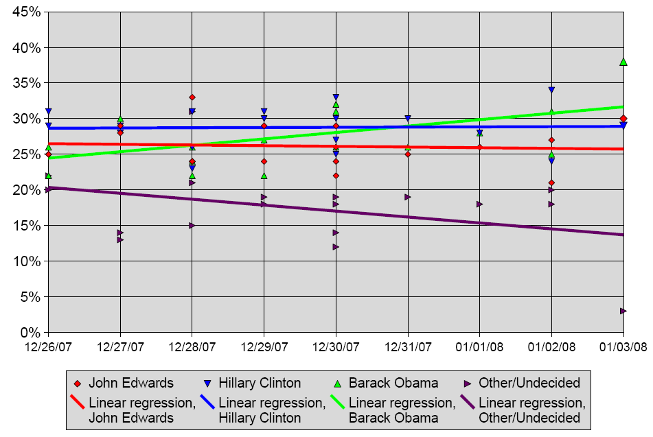 Chart summarizing poll data from Iowa for Edwards, Clinton and Obama with linear trendlines